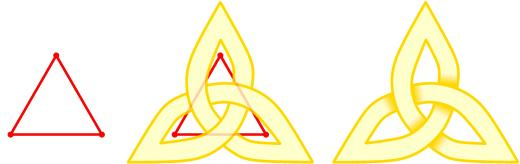 A knot is associated with a planar graph. The trefoil knot is associated with the triangle.